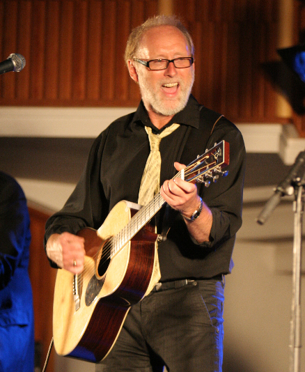 Halvdan Sivertsen